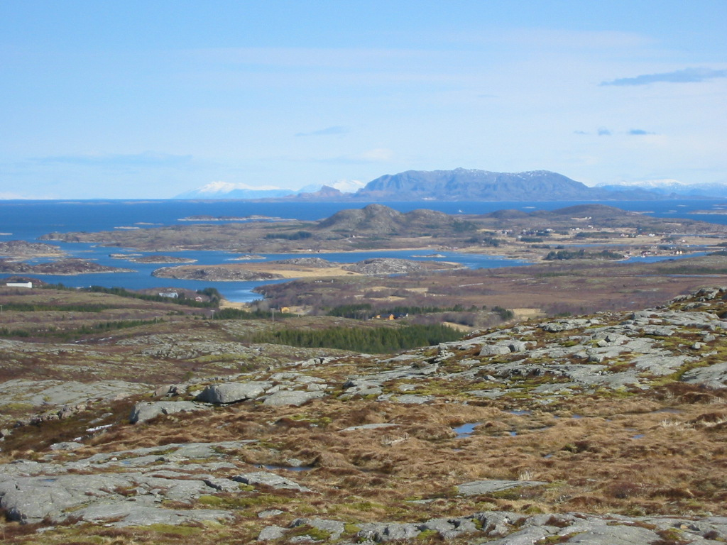 Vikna archipelago in Nord-Trøndelag, Norway. April 16 2006. View towards Leka in the north. Picture taken by Orcaborealis.